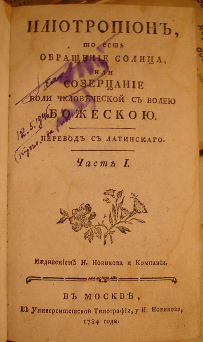 Book. Iliotropion... Moscaŭ, 1784.